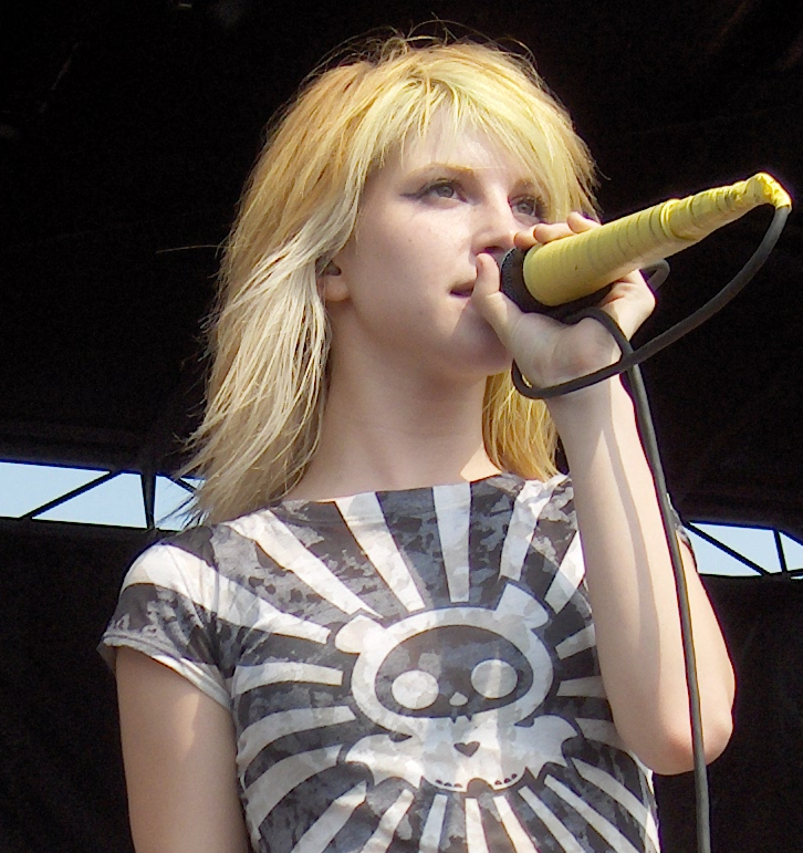 Hayley Williams performing as part of Paramore on the 2007 Vans Warped Tour at the Tweeter Center at the Waterfront in Camden, New Jersey, United States.